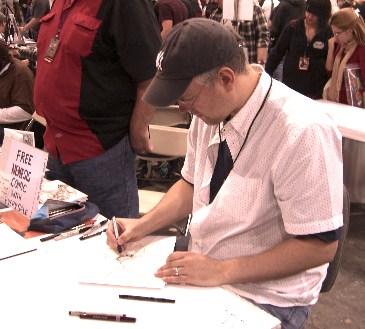 Comic book creator Steve McNiven, at the New York Comic Convention in Manhattan, October 10, 2010. Photo by Luigi Novi. This photo may be used, modified and published for any purpose, only if a easily visible credit to the photographer is placed near the photo in each instance in which it is used. (See licensing information below.) Publication of this photo without this proper attribution constitute copyright infringement. For more information on my photos, you can contact me here.